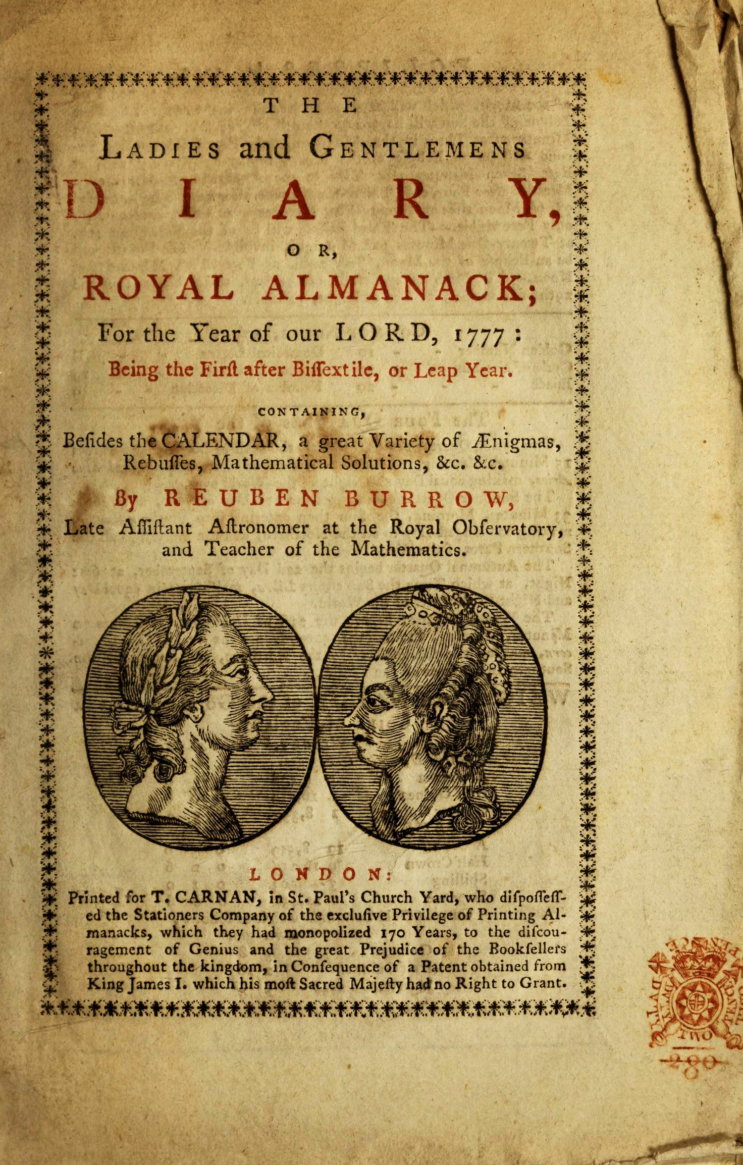 Cover of the Ladies and Gentlemans diary or royal almanack